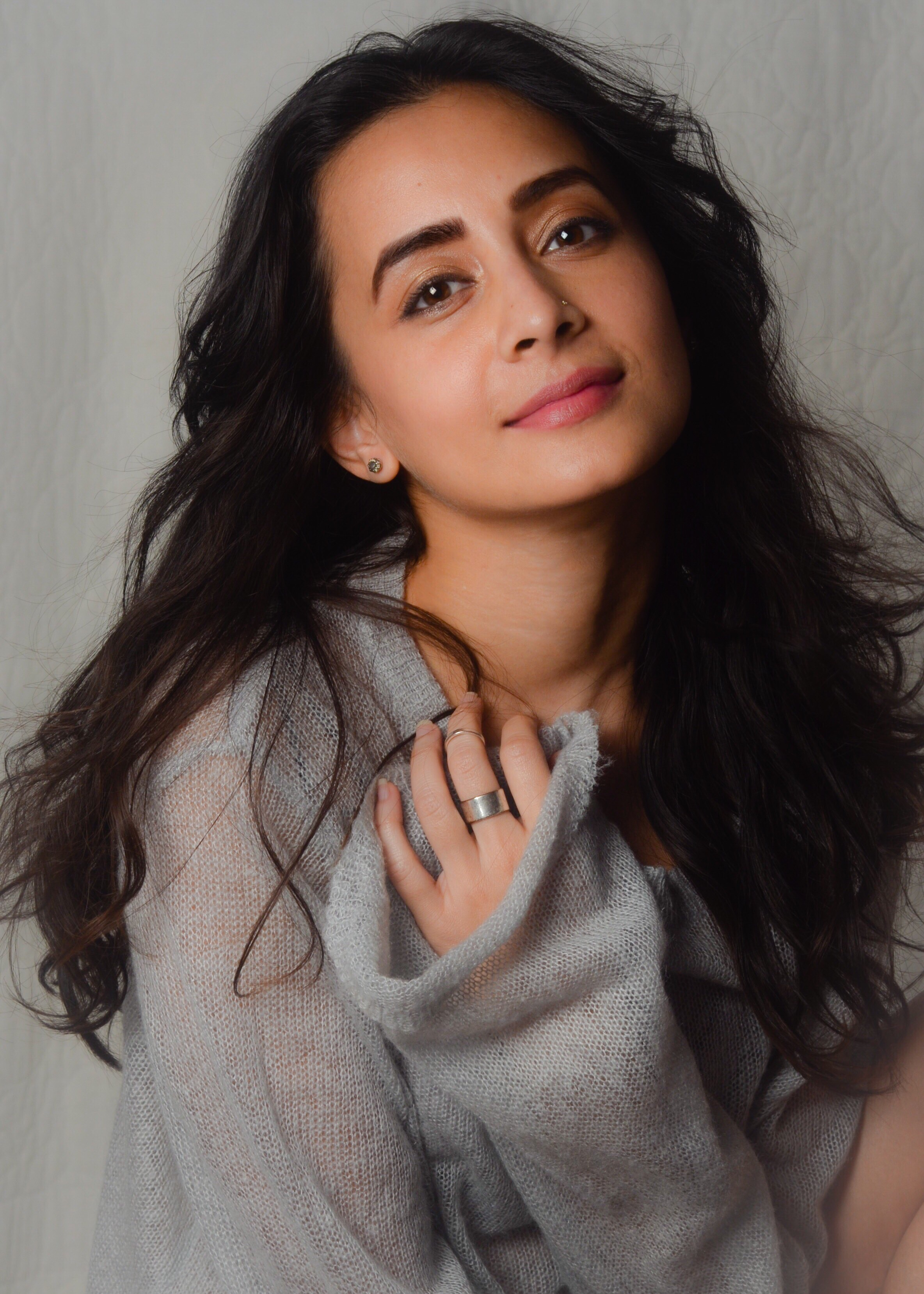 Auritra Ghosh, 2018